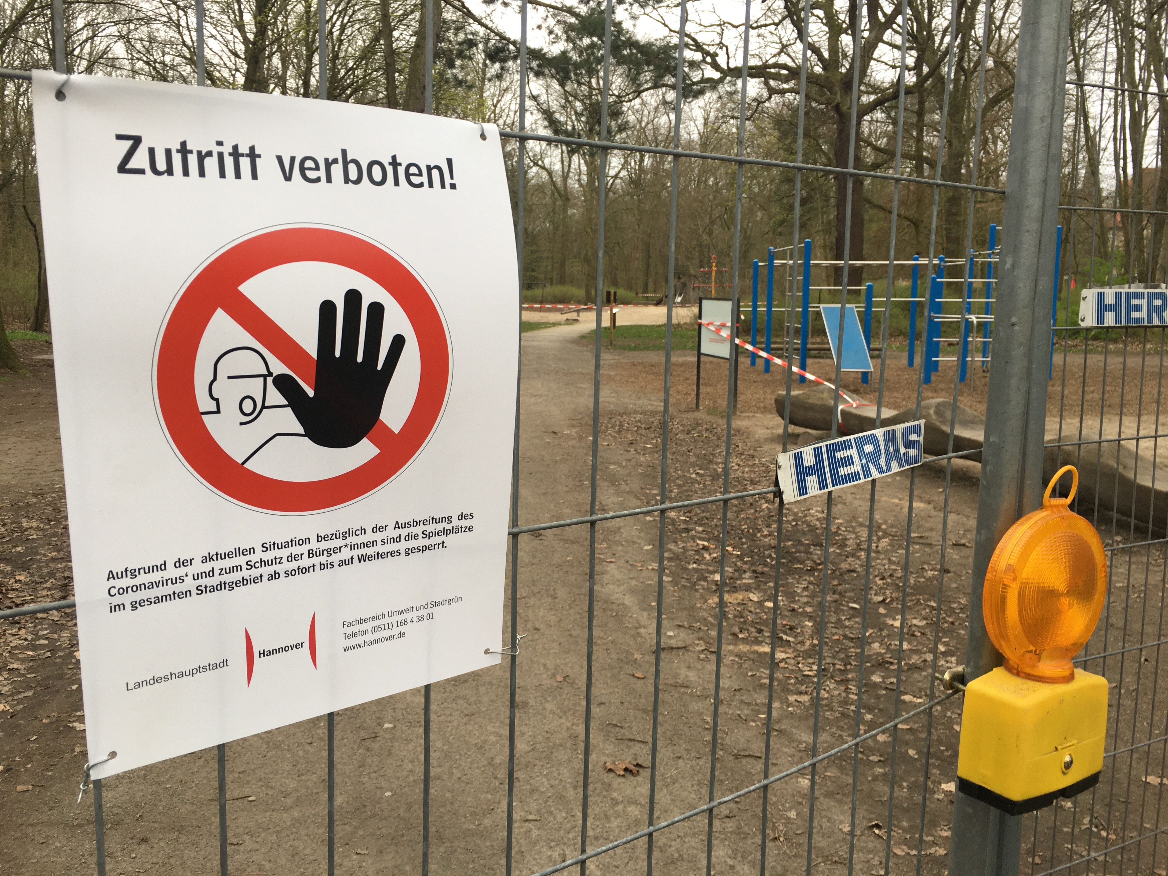 Closed playground in Eilenriede (Hannover, Germany) during COVID-19 pandemic.